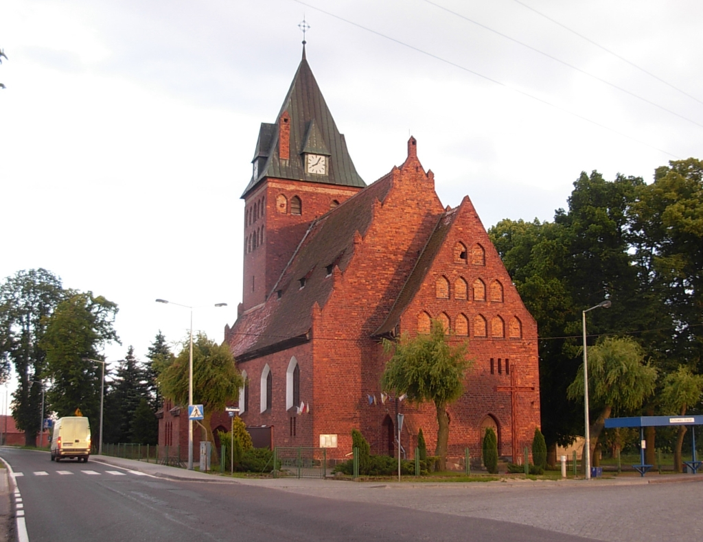 Our Lady Queen of Poland church in Bydgoszcz